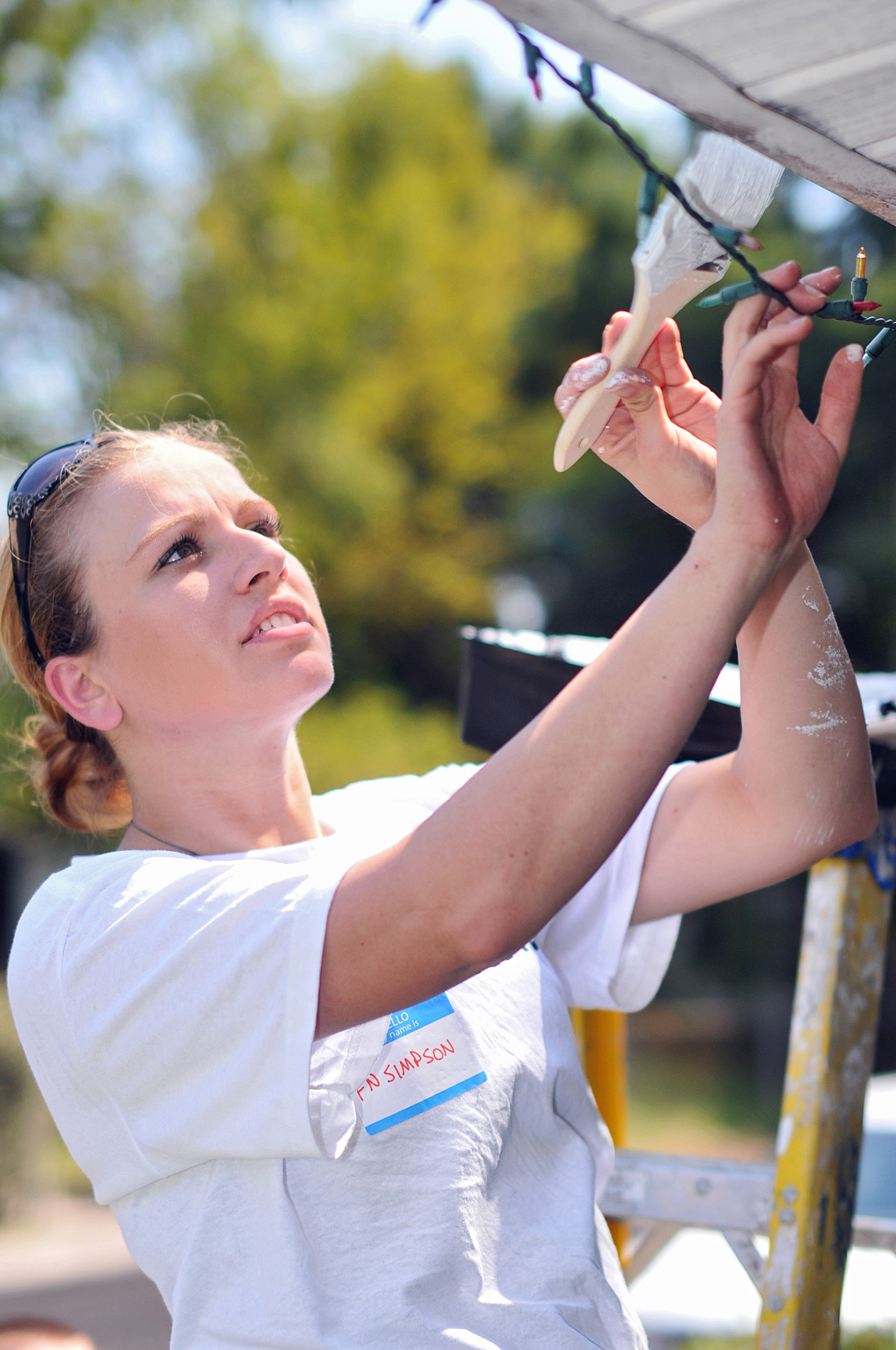 U.S. Navy Petty Officer Stephanie Simpson, assigned to Naval Nuclear Power Training Command, Naval Weapons Station Charleston, S.C., repaints the exterior trim of a home as part of the 2009 Day of Caring in Charleston, S.C., on Sept. 11, 2009. More than 2,000 sailors throughout Charleston are volunteering in this community effort.